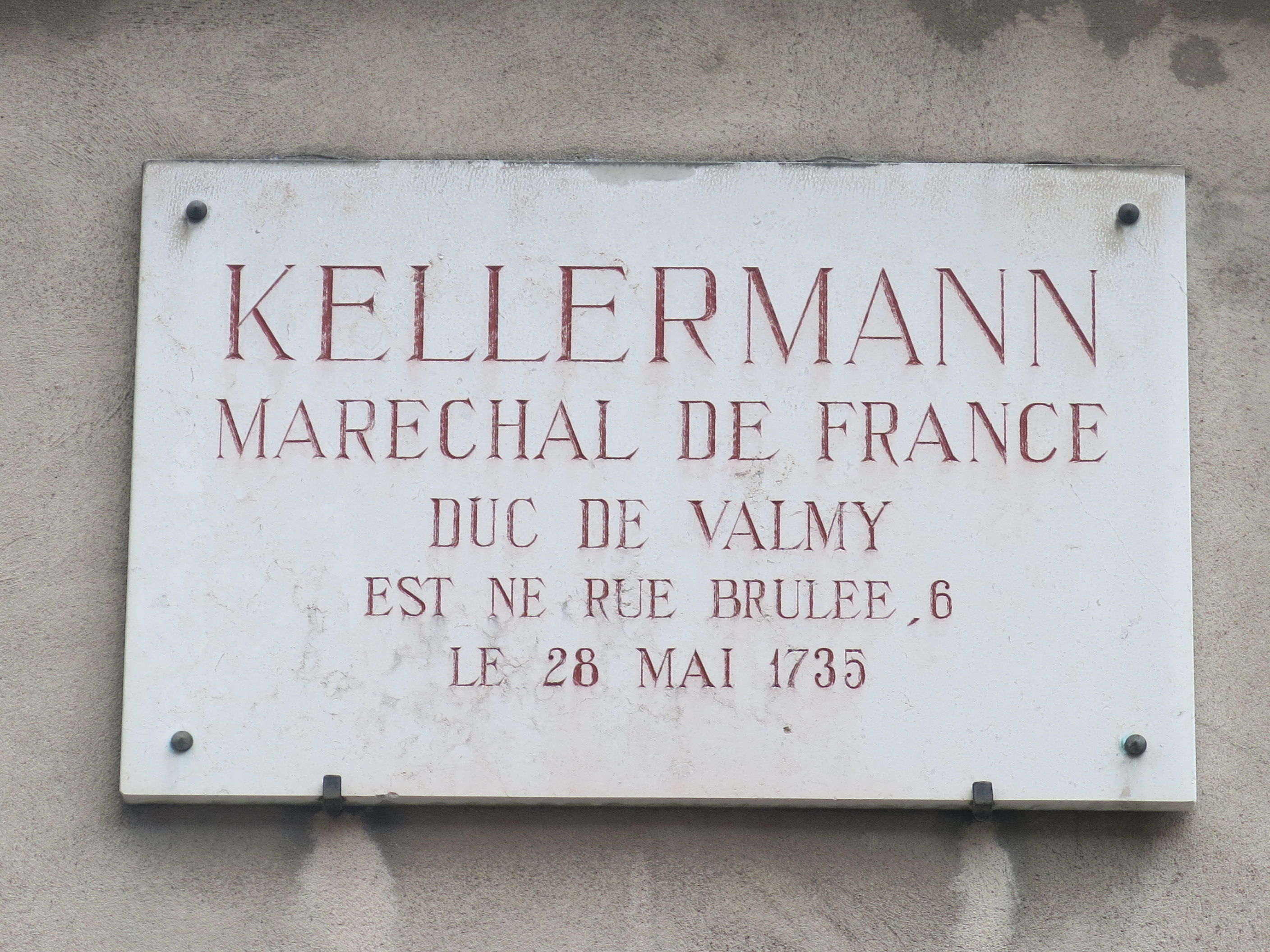 Plaque on the house where was born the French general Kellermann, rue Brûlée in Strasbourg (Bas-Rhin, France).